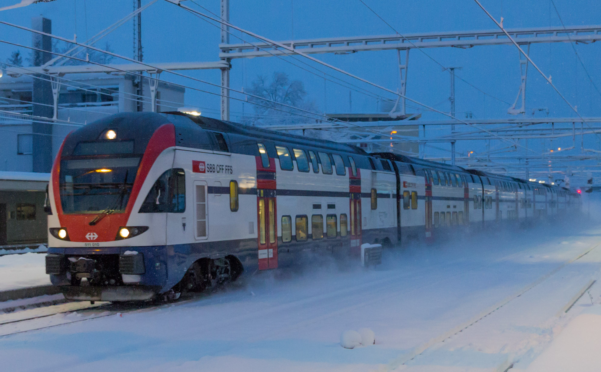 A SBB RABe 511 on a S12 service dashes through Effretikon, Switzerland.